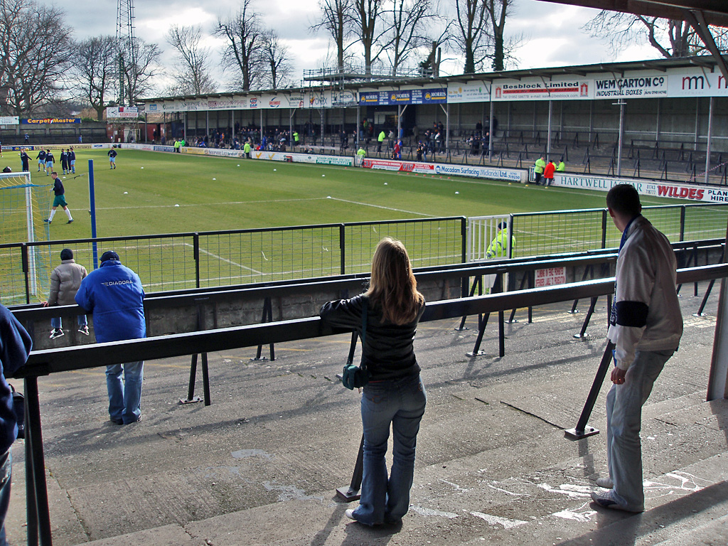 The Riverside Terrace at Gay Meadow football ground, home of Shrewsbury Town FC. Saturday 25th February 2006